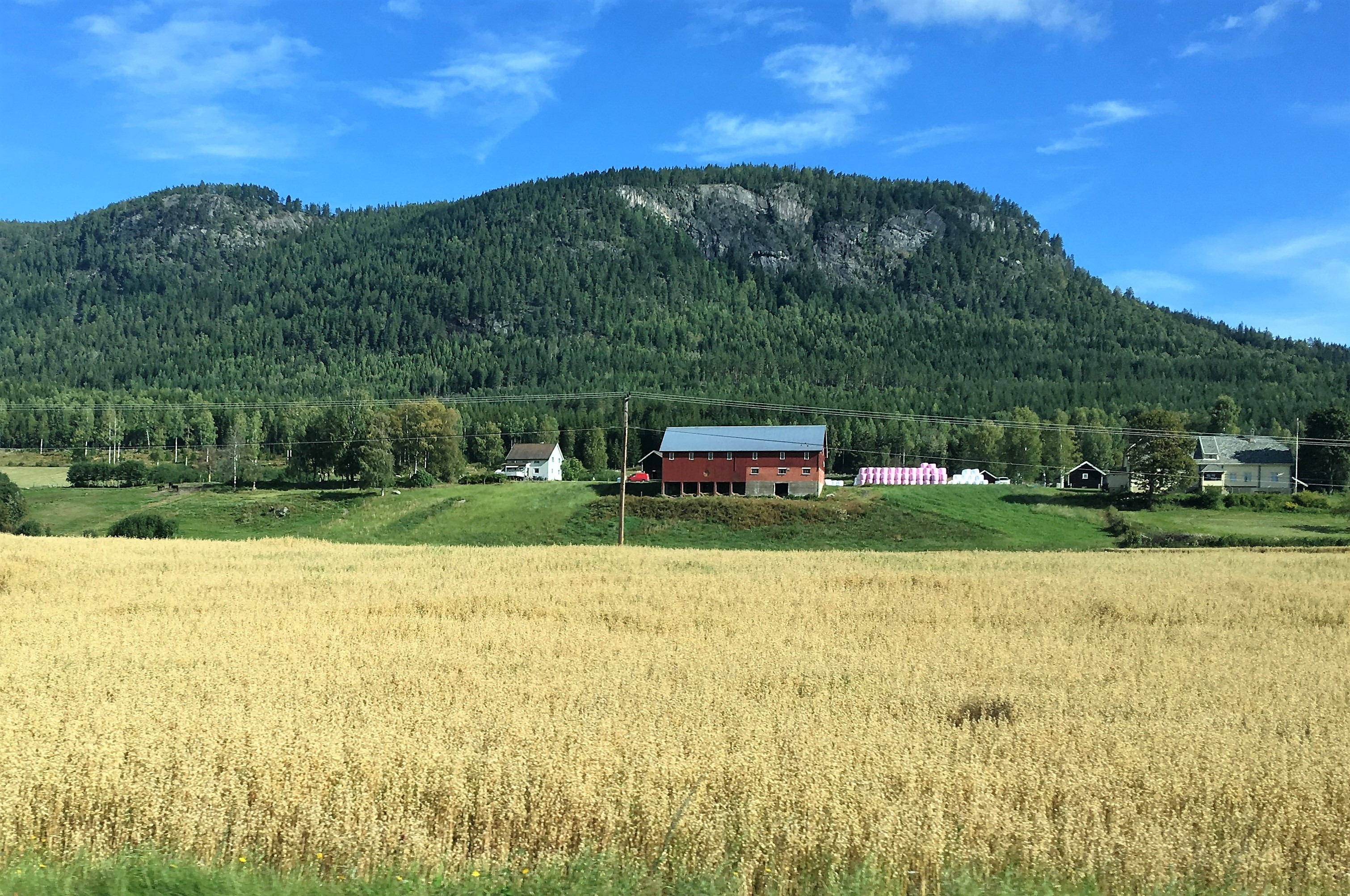 Flesberg Parish Manor (Flesberg prestegård), at Flesberg, Buskerud (Norway)